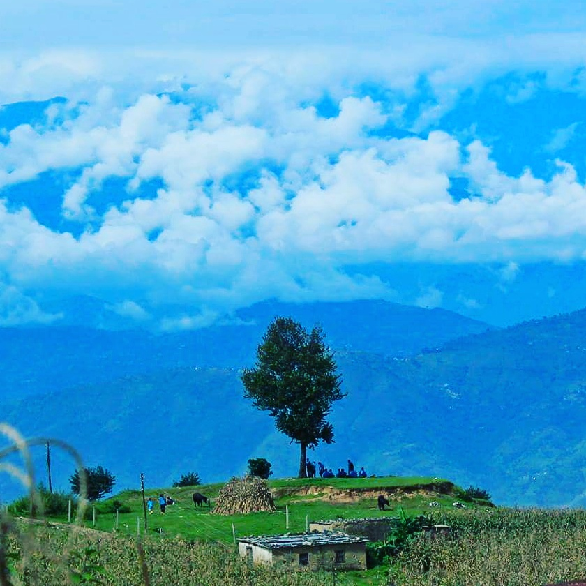 Scenery